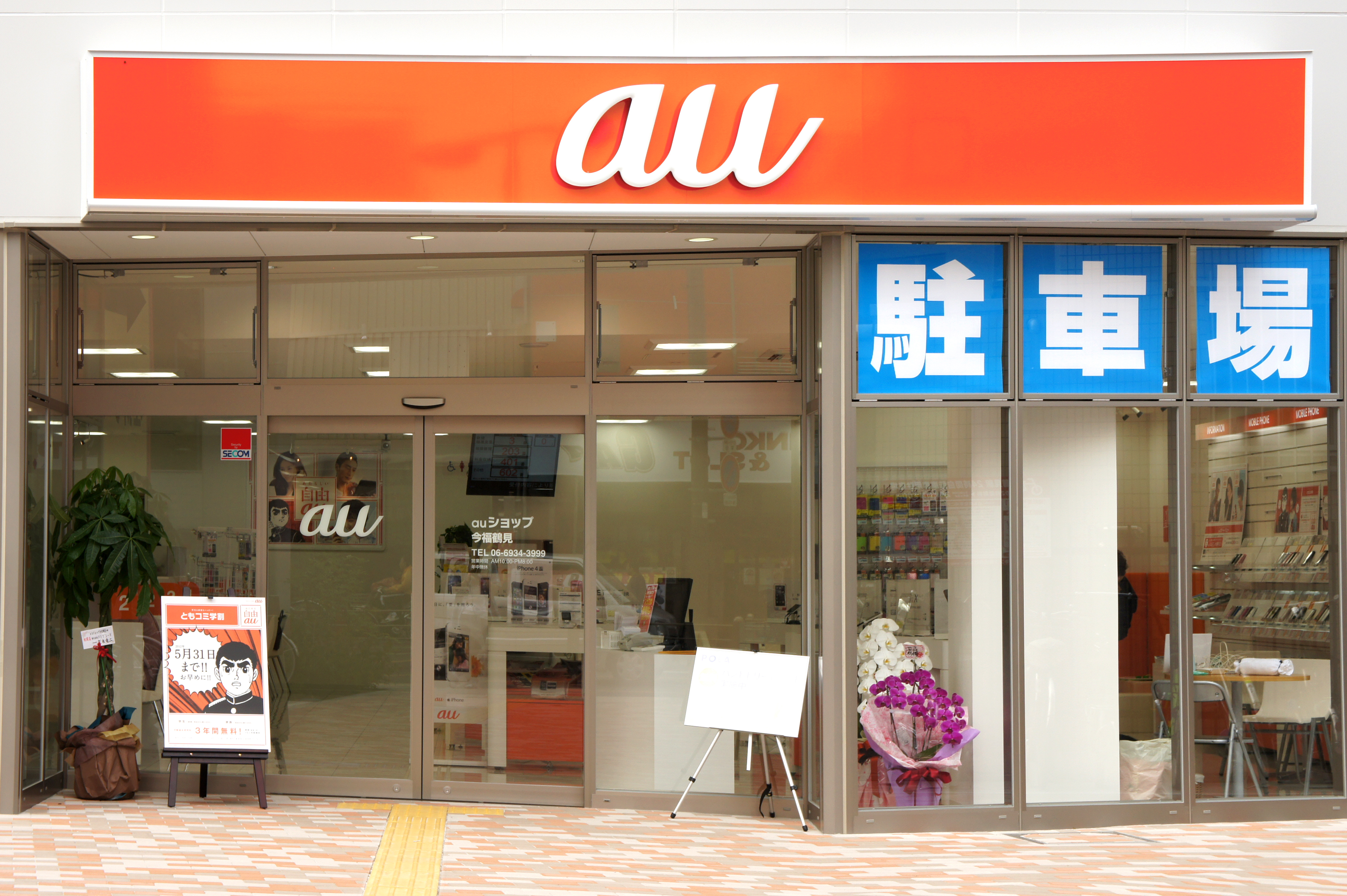 au Shop Imafuku-Tsurumi, 2-14-12 Imafukuhigashi Joto-ku Osaka-City Osaka Japan.